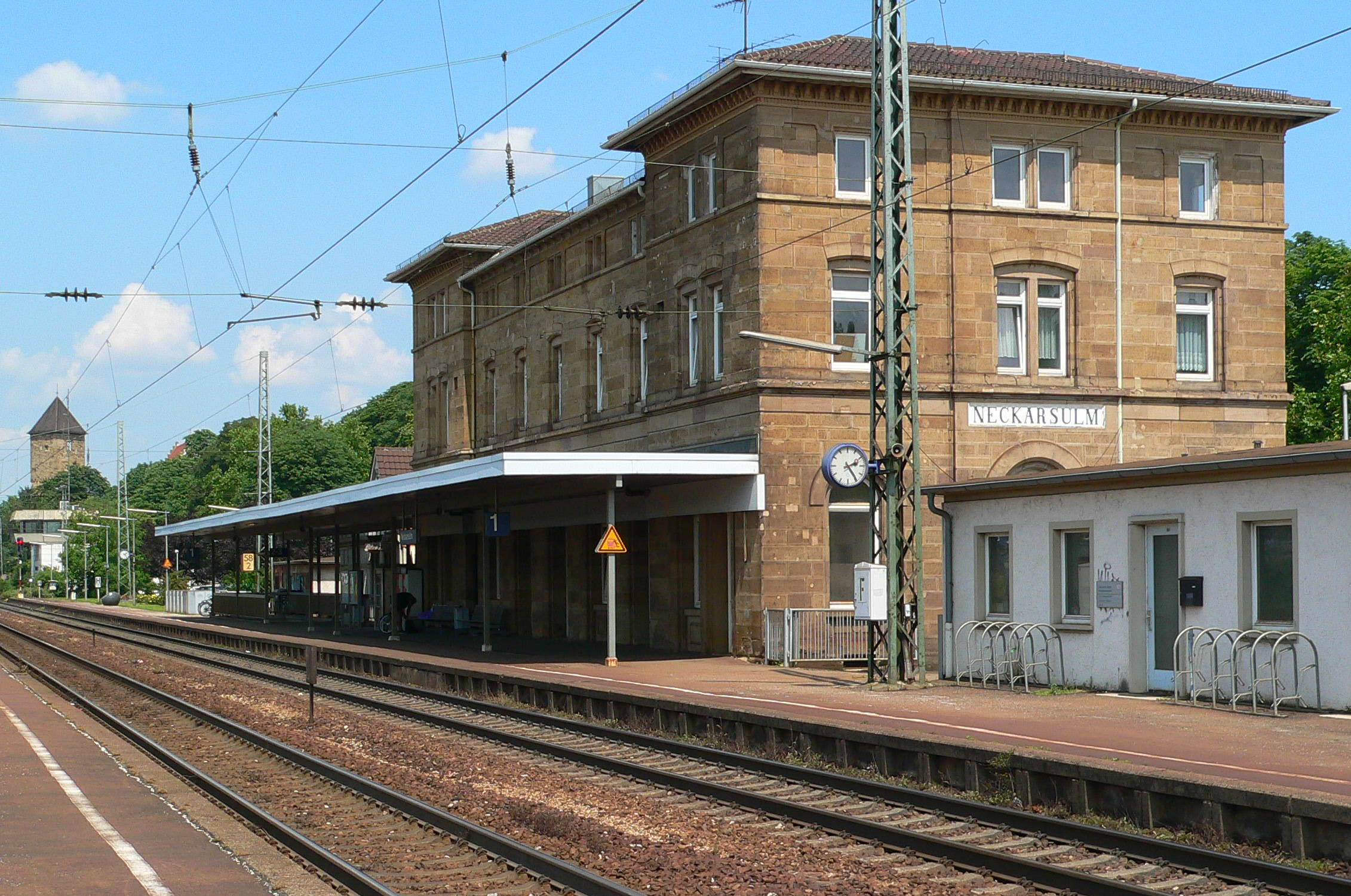 Train Station of Neckarsulm / Germany, by J. Köhler - 2007